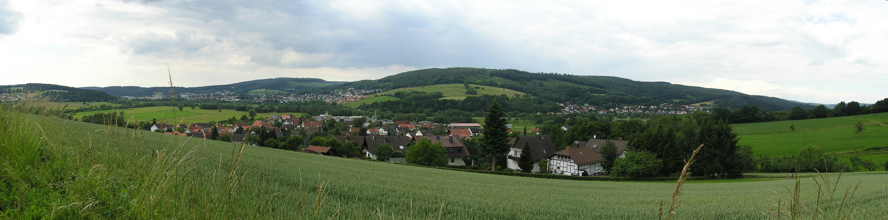 Panorama of Wächtersbach